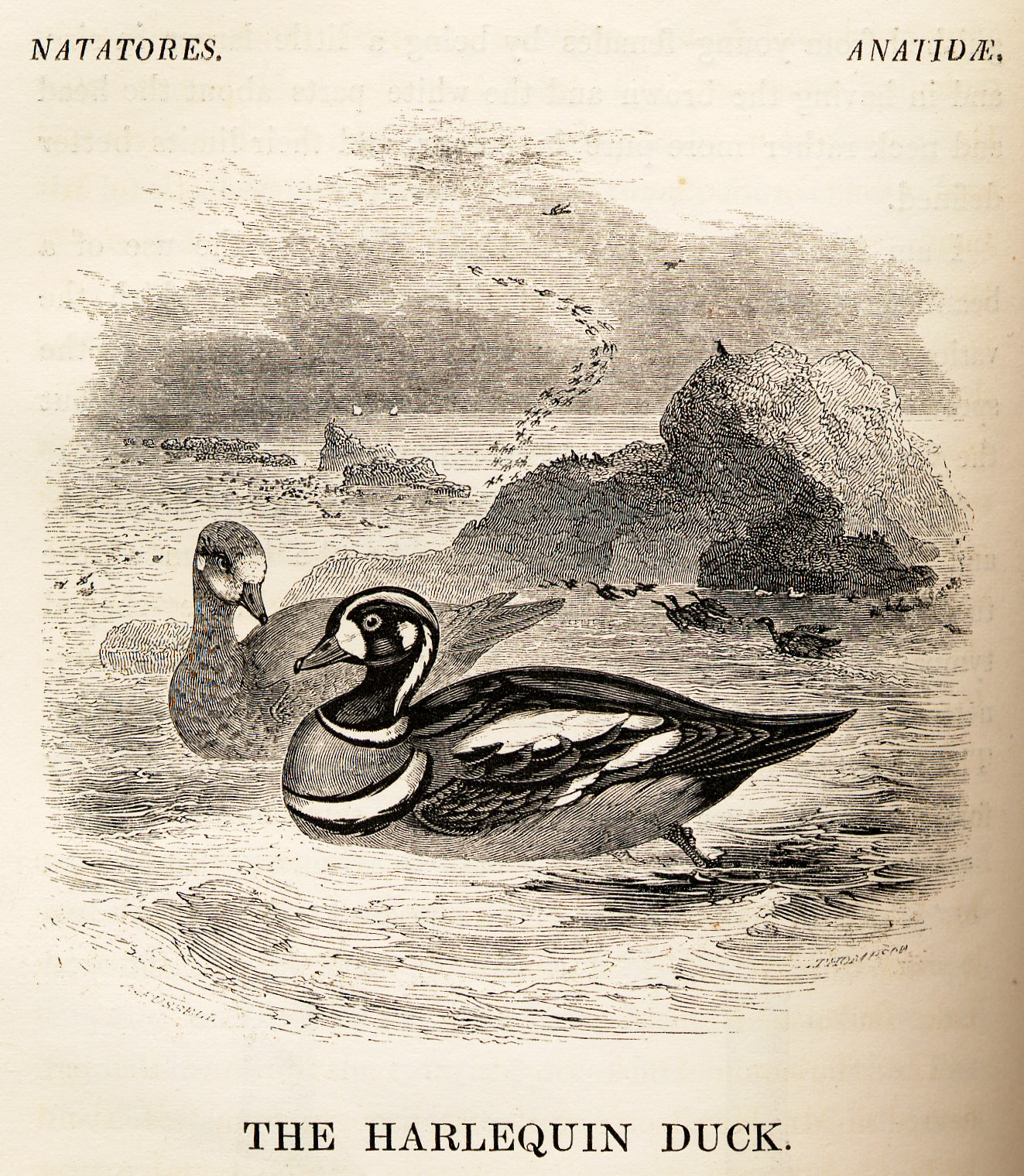 Harlequin Duck from Yarrell History of British Birds 1843, drawn by Alexander Fussell and engraved by John Thompson. This image is unusual in depicting a bird swimming.